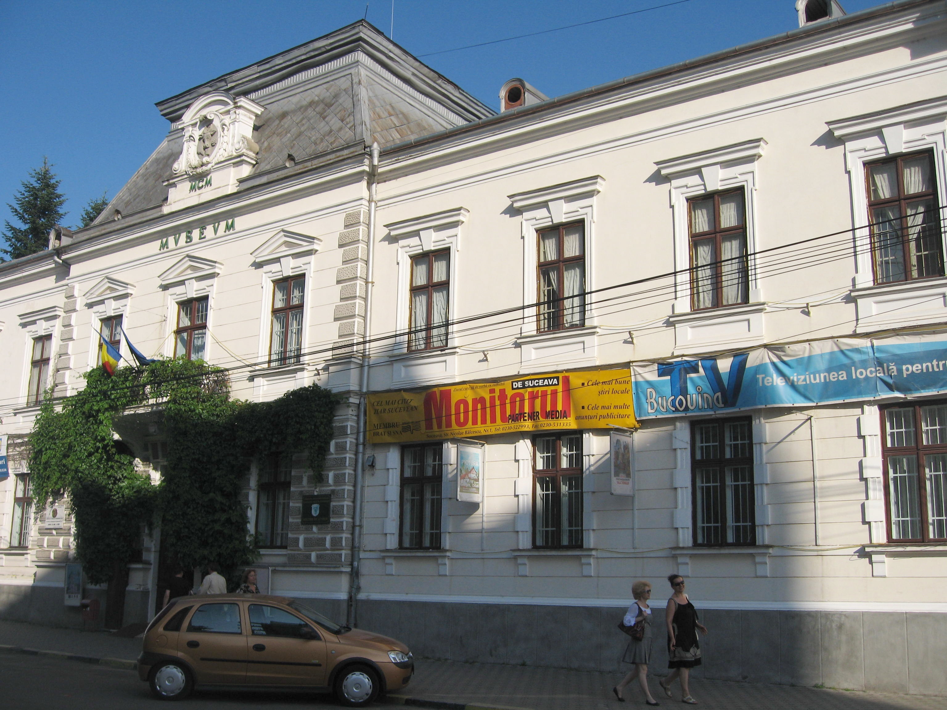 Bukovina Museum in Suceava / Suceava History Museum.